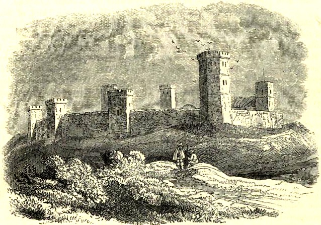 A Victorian representation of Oxford Castle, as imagined in the 15th century